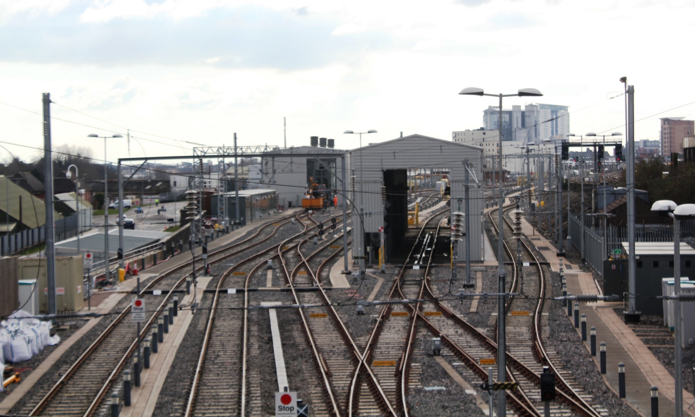 The new InterCity Electric Train depot at Maliphant, looking towards Swansea station which is just out of sight on the right.